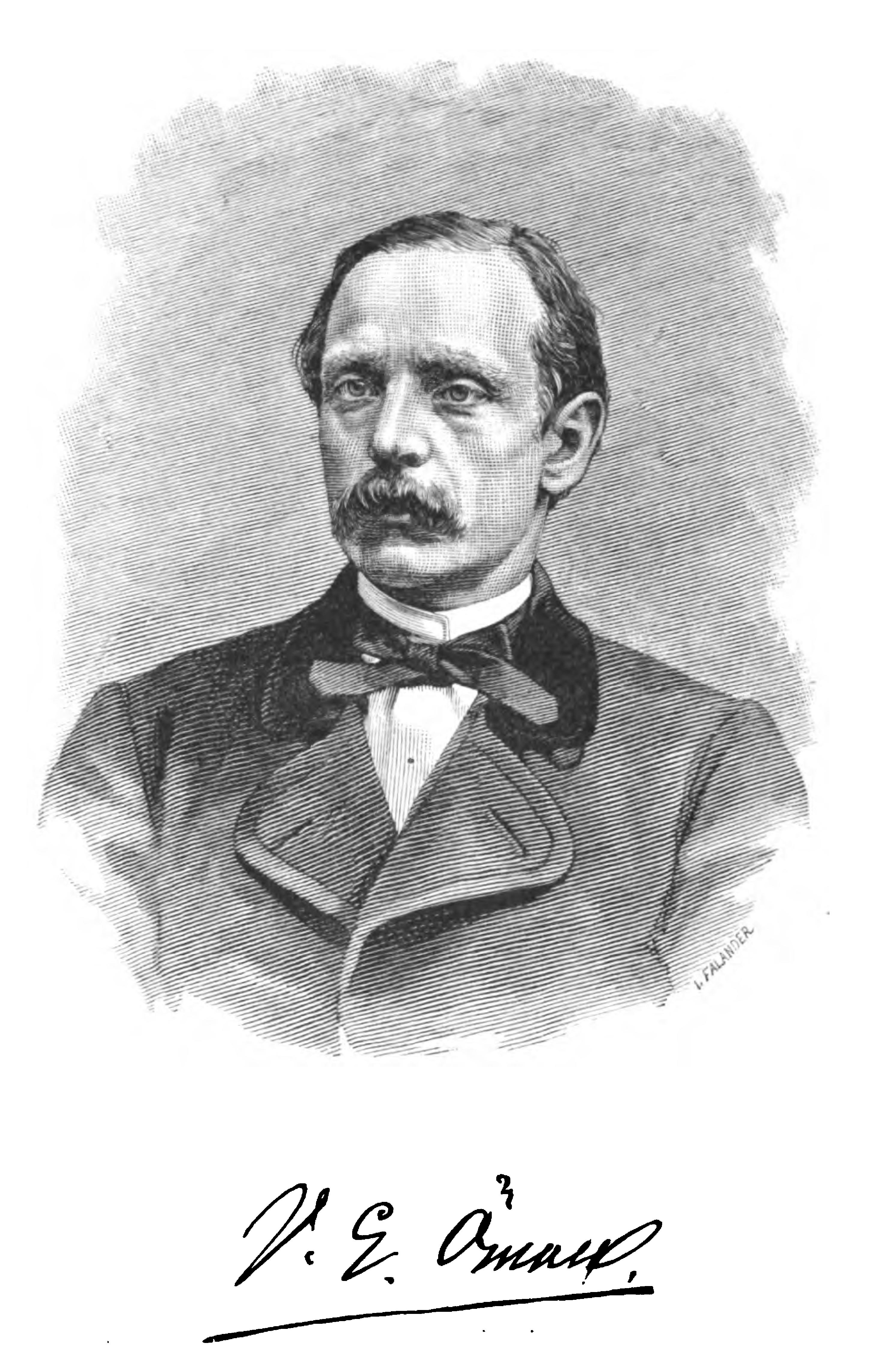 Victor Emanuel Öman (1833-1904), Swedish poet, translator and linguist.